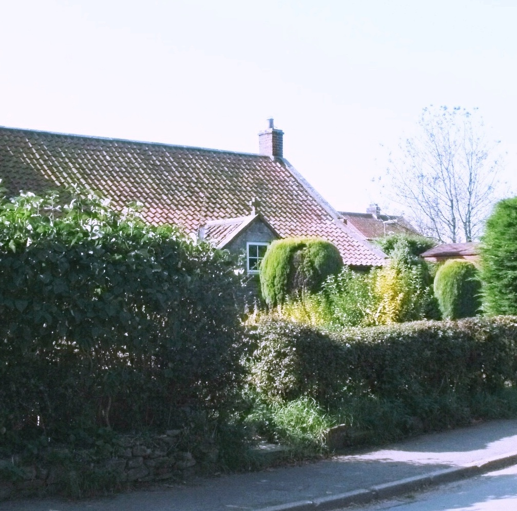 Modern photograph of the building built by George Leo Haydock that served as a Catholic school while he was pastor.